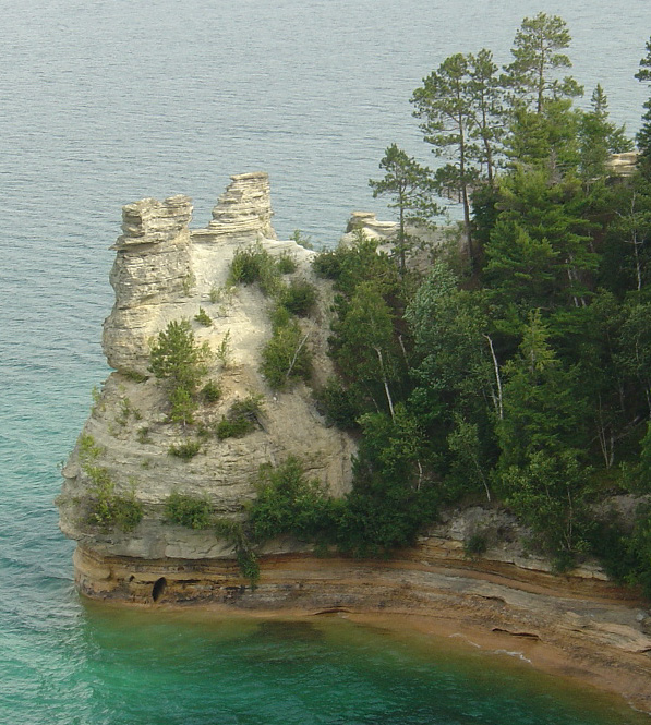 Miner's Castle, a limestone landmark, in Picture Rocks National Seashore, Michigan. The location is a Registered Michigan State Historic Site.